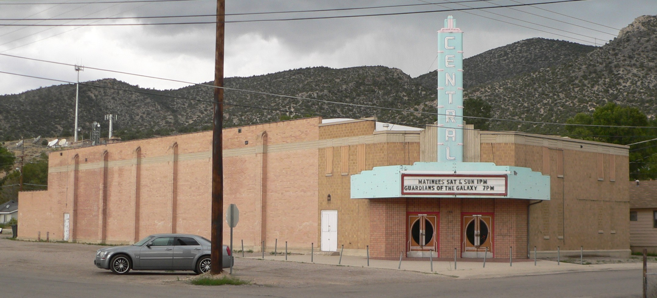 Central Theater, located at 145 W. 15th Street in Ely, Nevada; seen from the southeast.